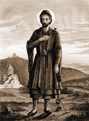 Evstati Mtskheteli, a Georgian saint